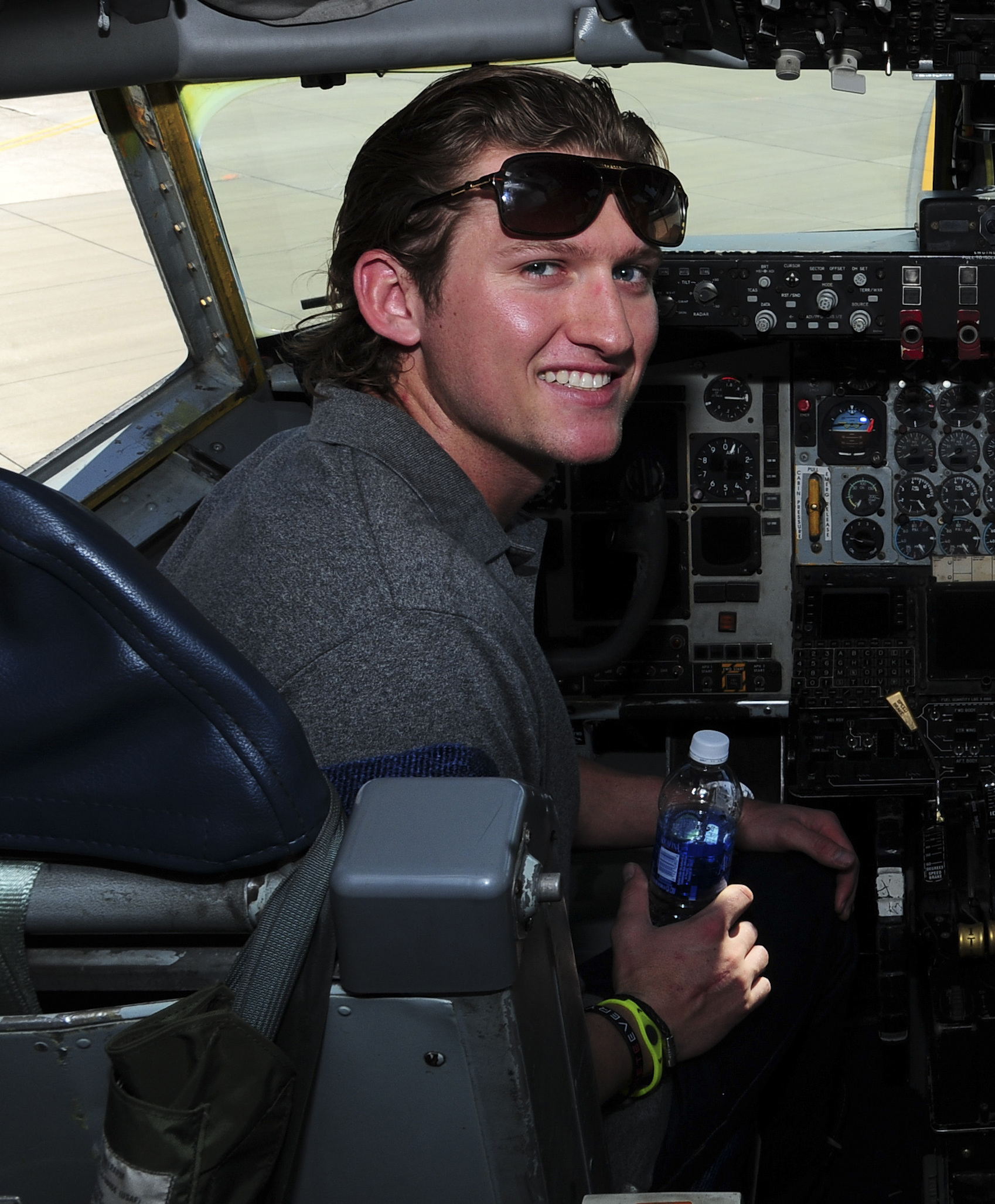 Jake Hager and Tyler Goeddel, Tampa Bay Rays minor league short stop and third baseman, pose for a photo in the cockpit of a KC-135 Stratotanker during a tour at MacDill Air Force Base, Fla., Jan 16, 2013. Players from the Rays spent the afternoon with Airmen at the base to get an inside look of MacDill’s mission. (U.S. Air Force photo by Staff Sgt. Linzi Joseph/Released)